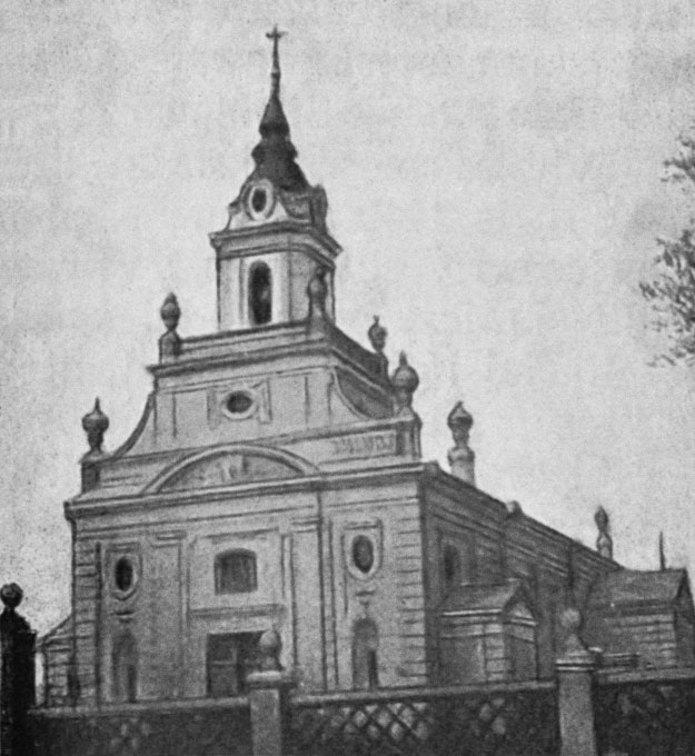 Catholic Church in Lipsk, Belarus